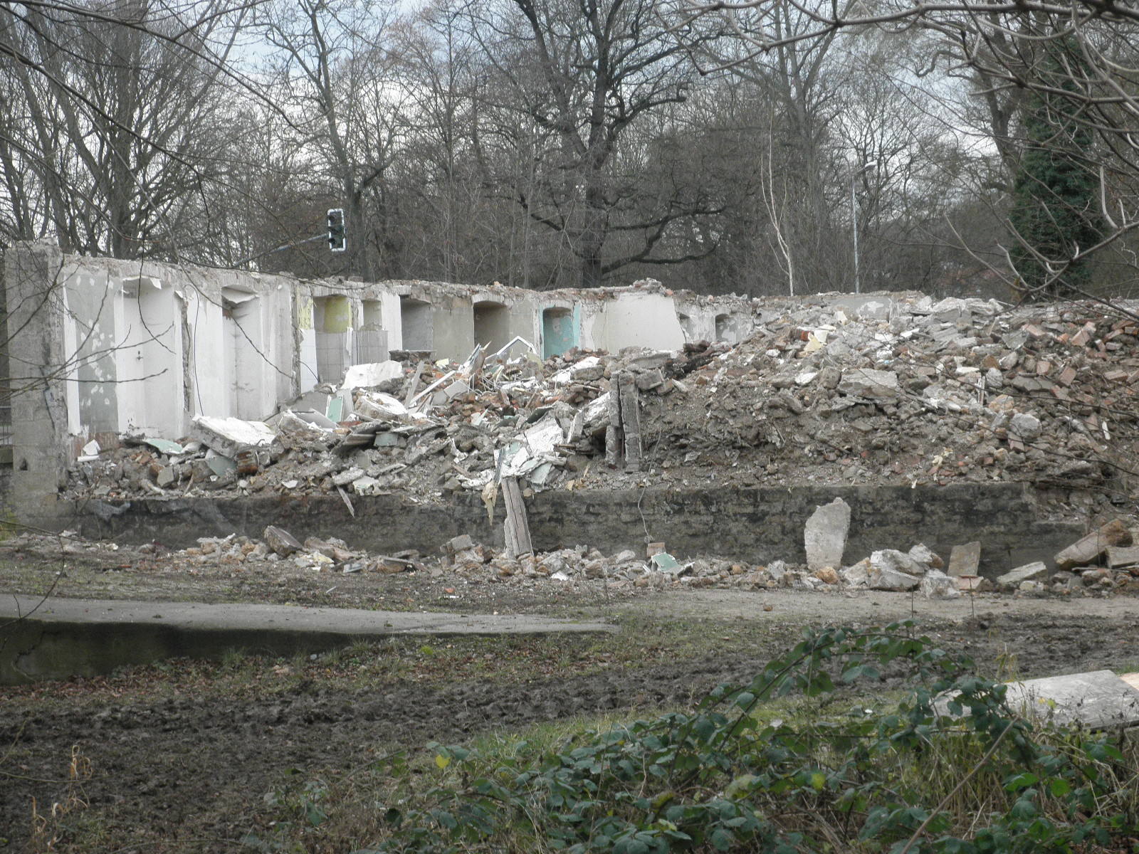 Kartäuser Mill in Erfurt after Demolition 2015